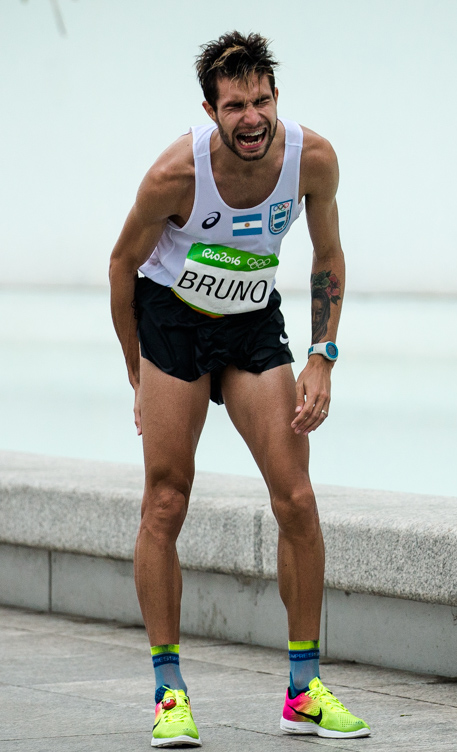 Men's marathon at the 2016 Summer Olympics